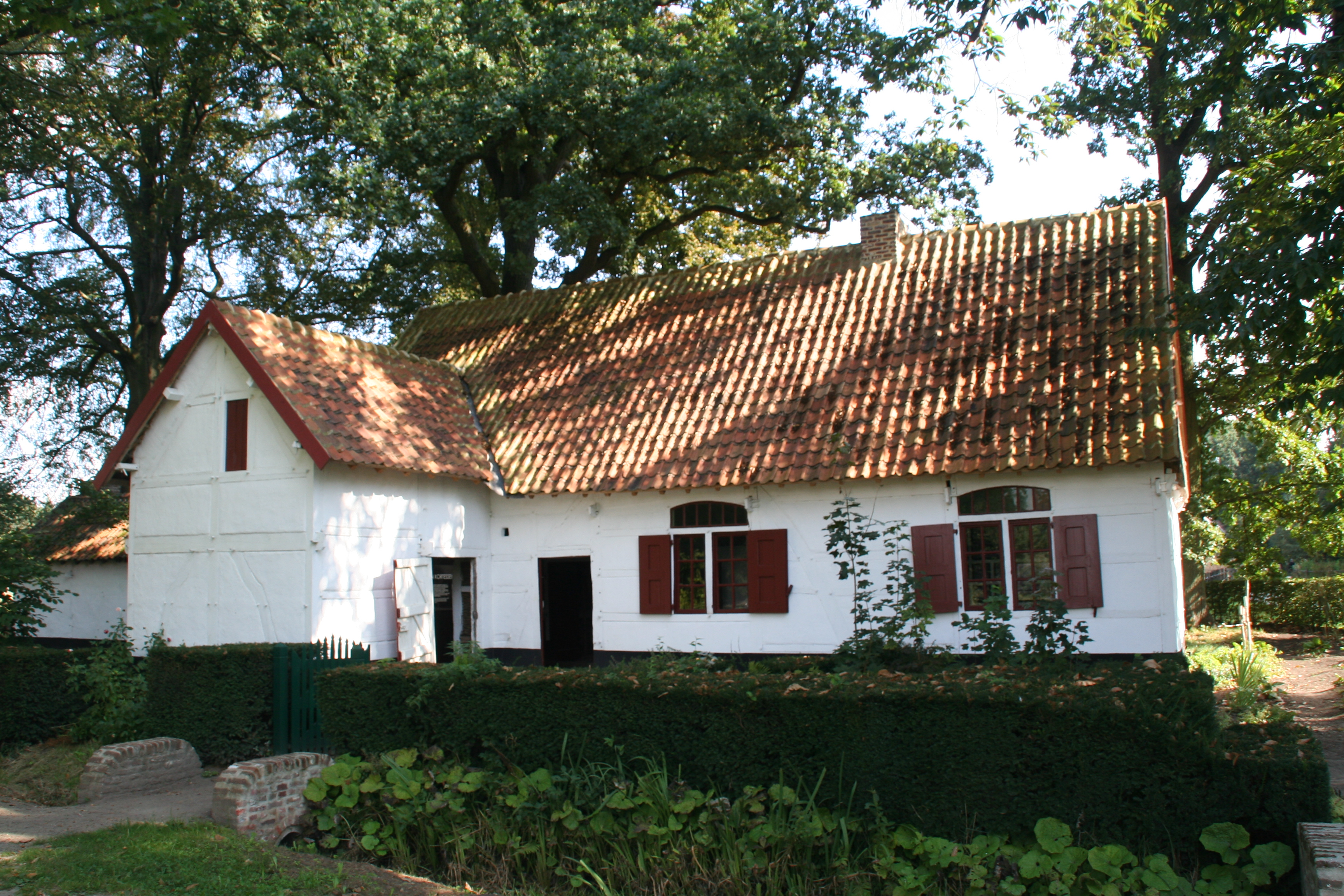 Farmstead from Kortessem in Bokrijk open-air museum.